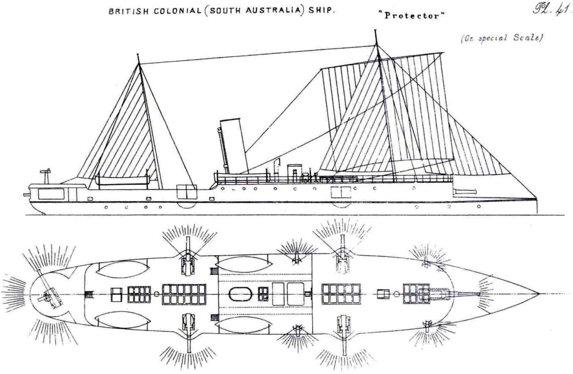 Diagrams showing starboard elevation and deck plan of Australian colonial gunboat HMCS Protector.